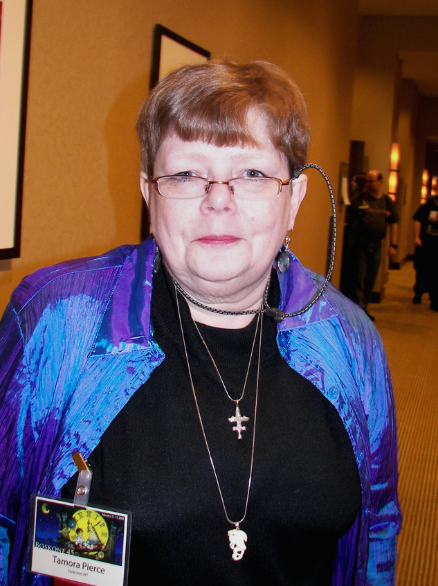 Science fiction author Tamora Pierce at Boskone 45, a 2008 science fiction convention held in Boston, Massachusetts, the United States.